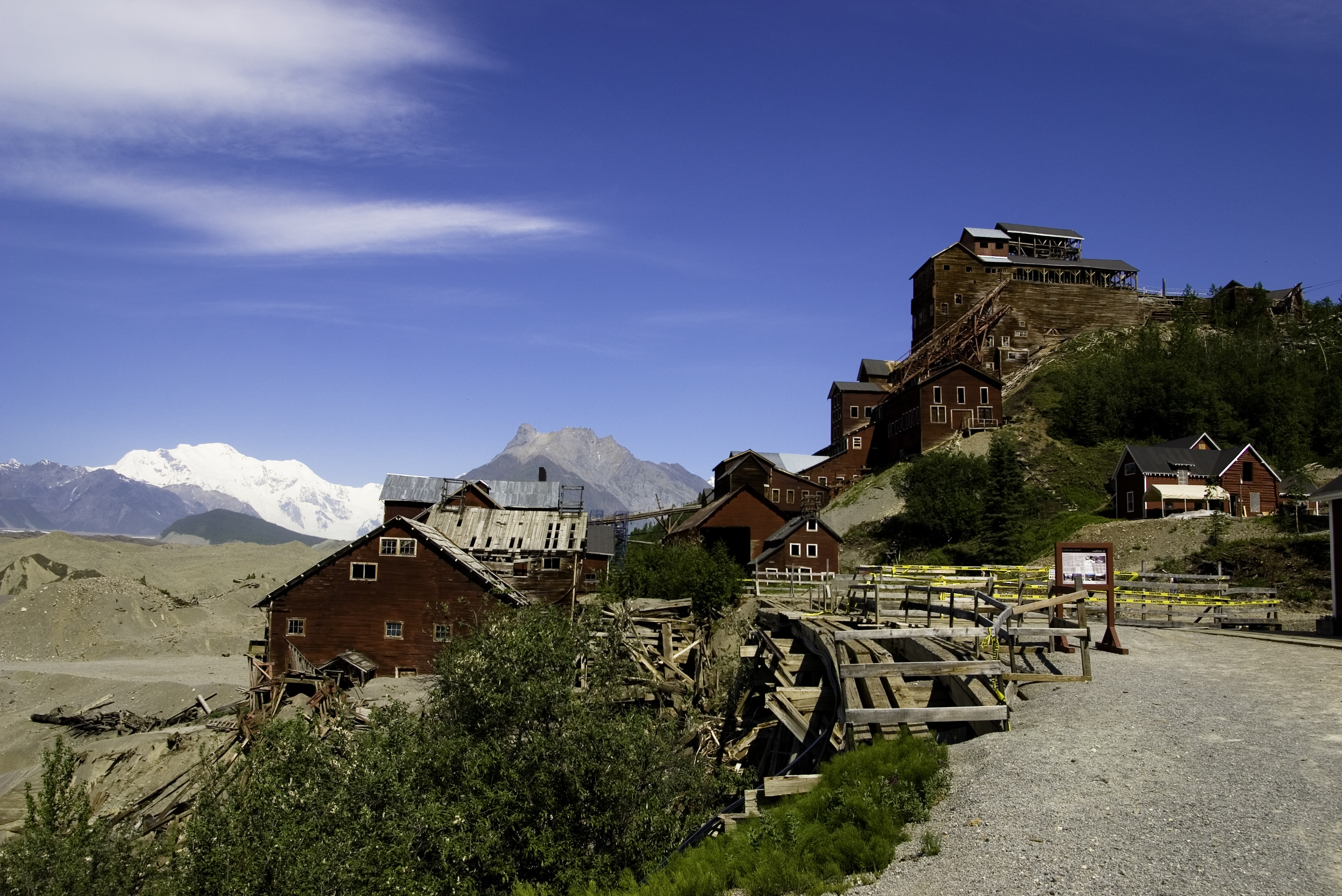 The Kennecott Ghost Town